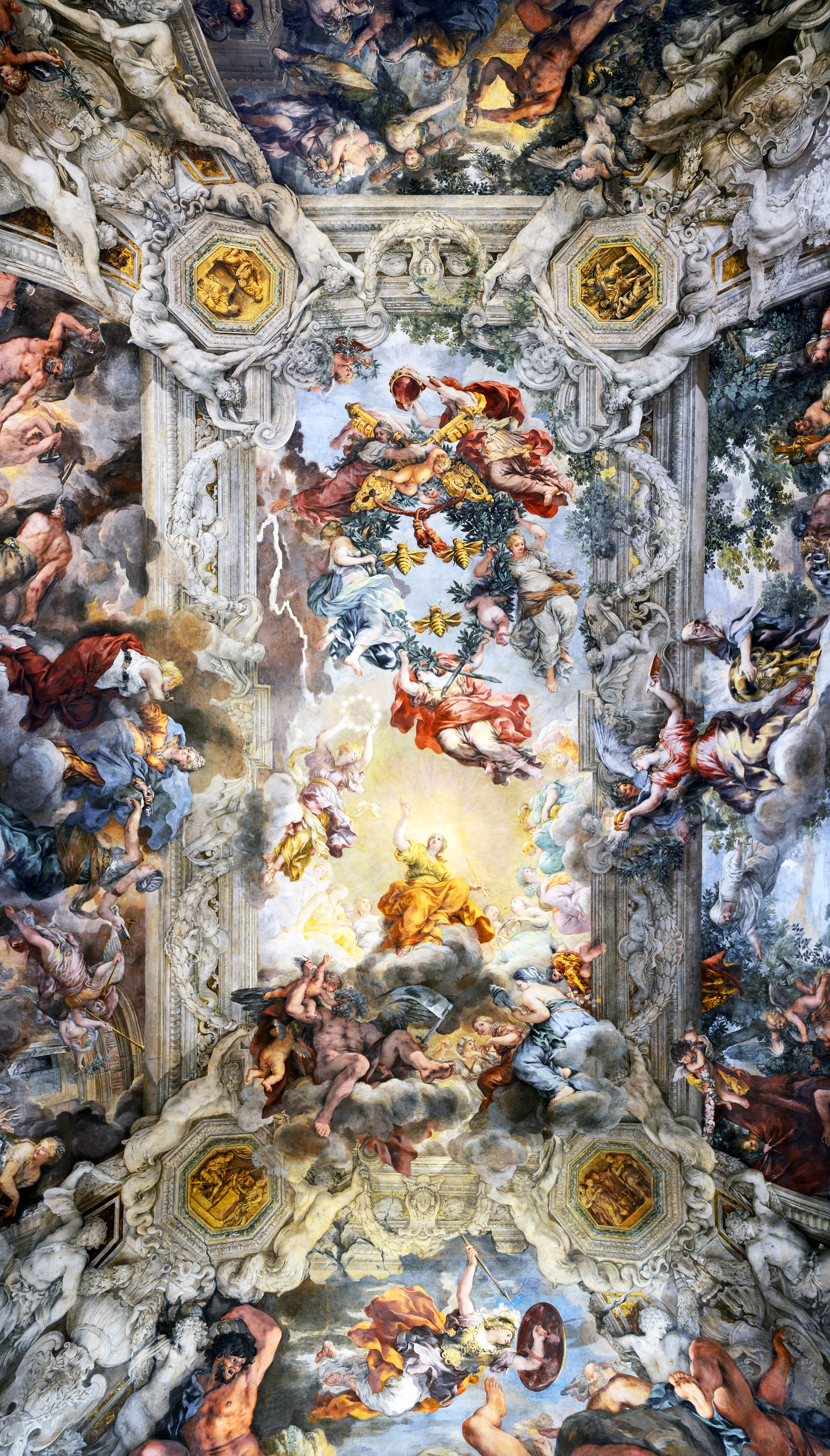 The Triumph of Divine Providence, Palace Barberini, Ceiling by Pietro da Cortona